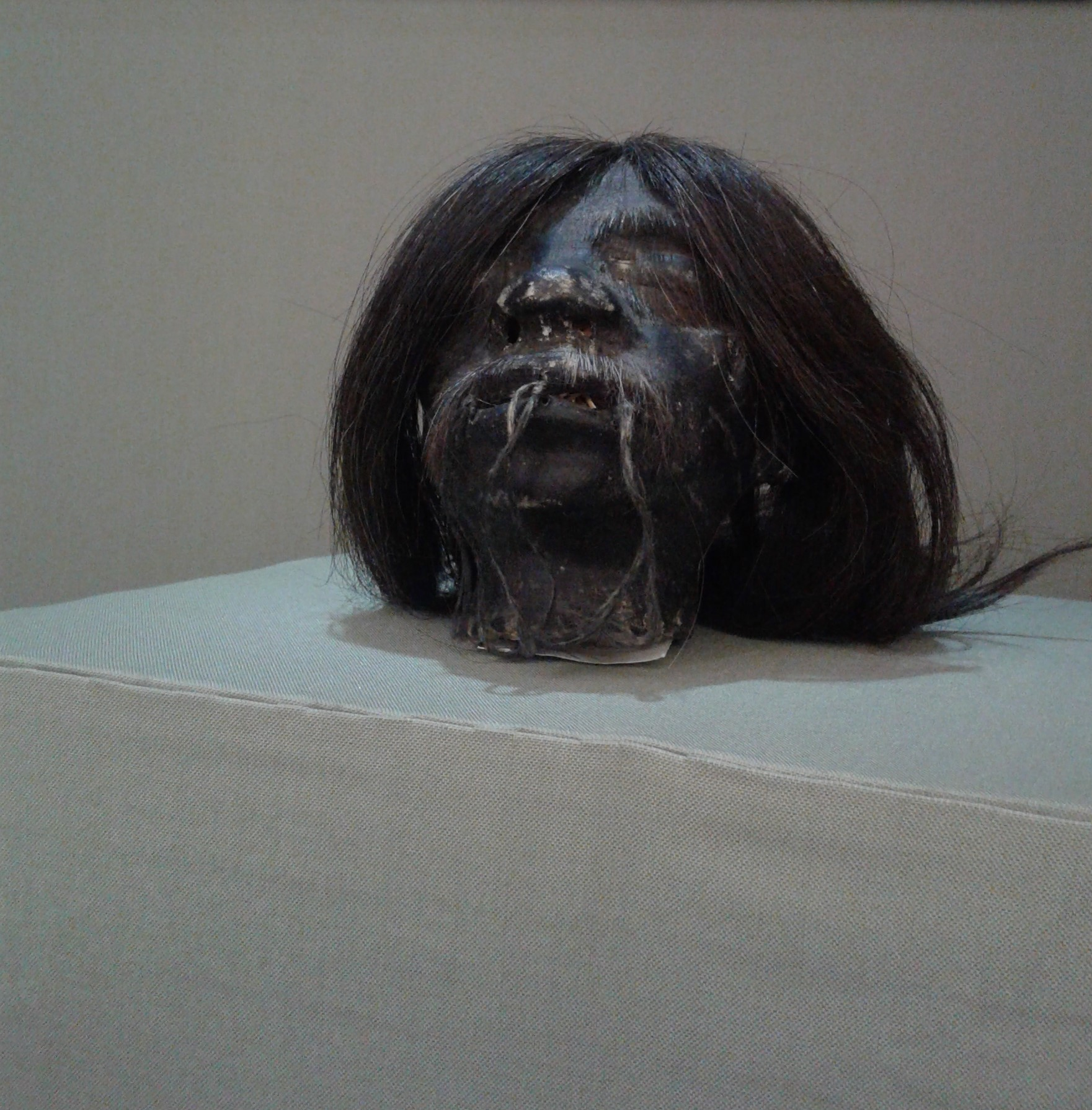 Omidvar brothers museum